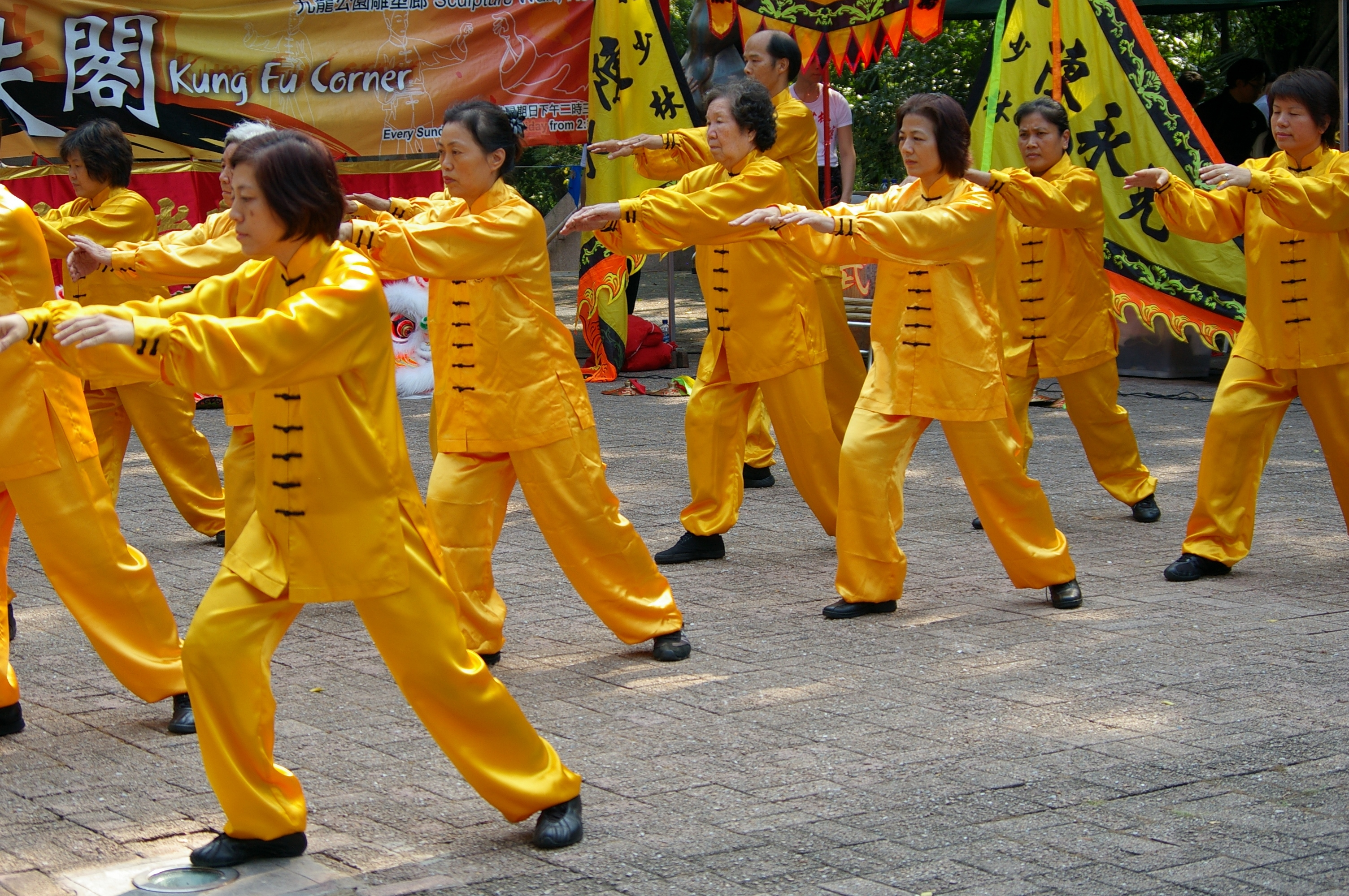 Tai chi show on Kung Fu Corner in Kowloon Park, Hong Kong